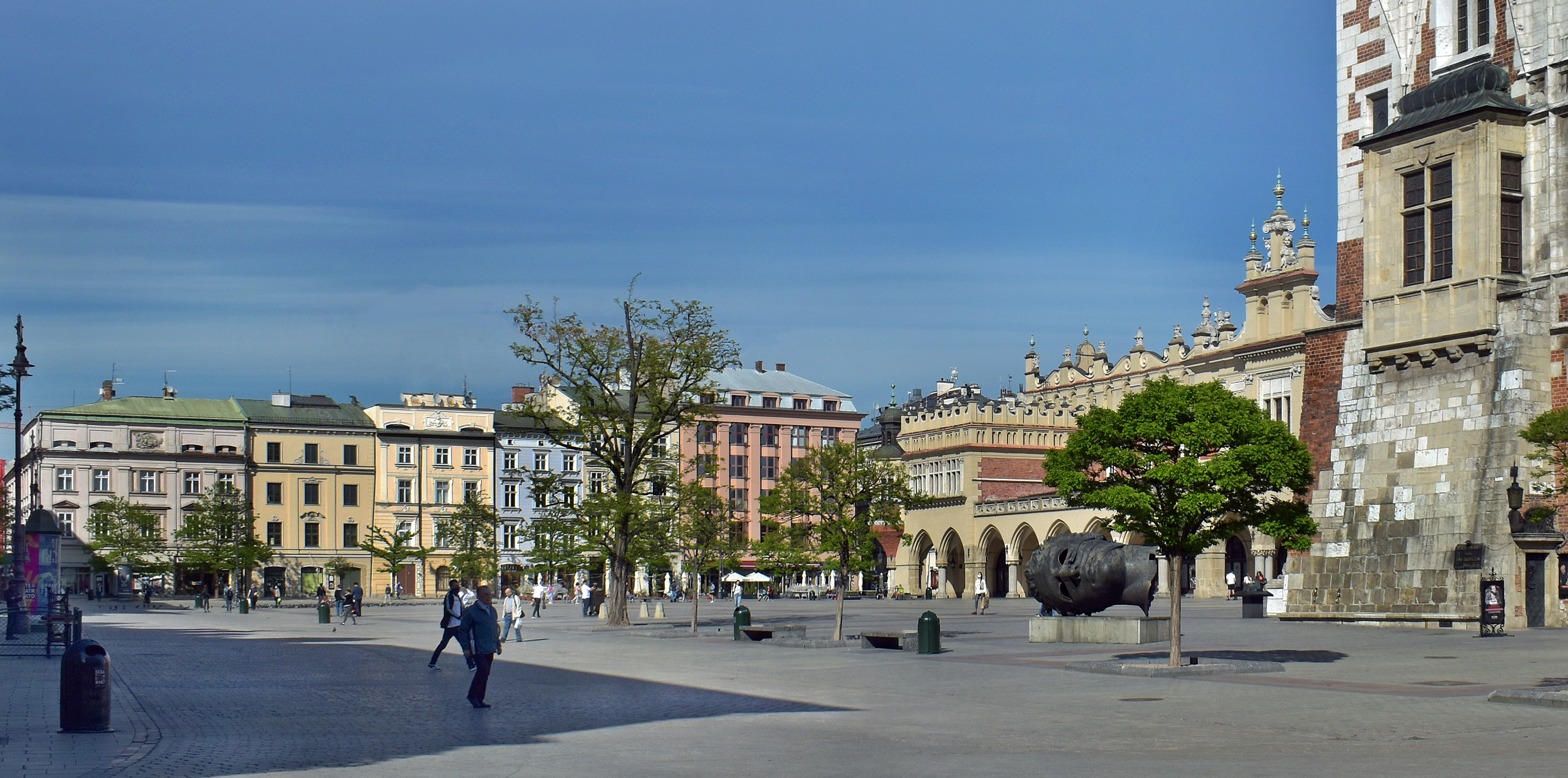 Main Market square, west side-view from S, Old Town, Krakow, Poland